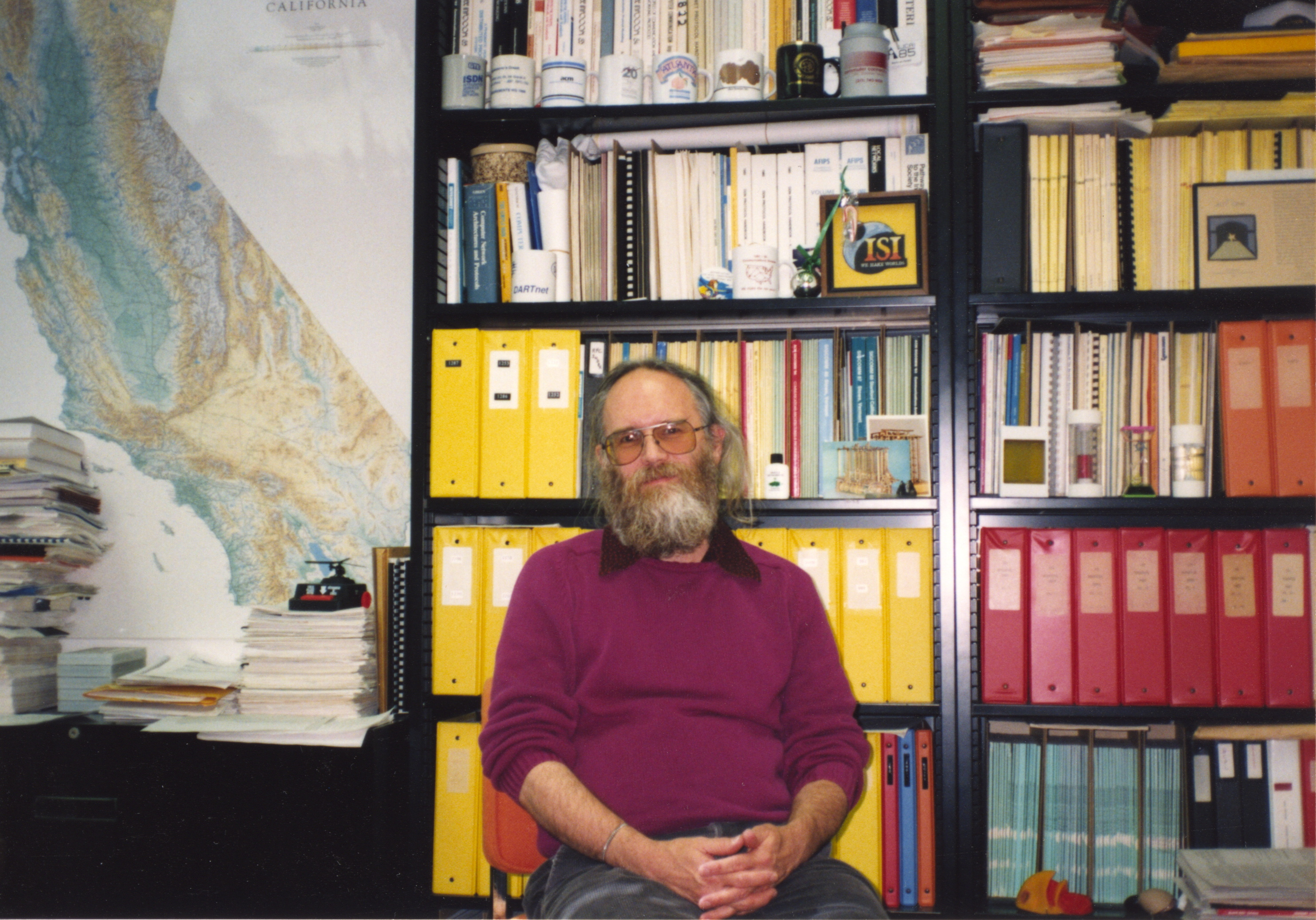 Jon Postel sitting an office in front of a bookshelf. A map of California is seen to his right.